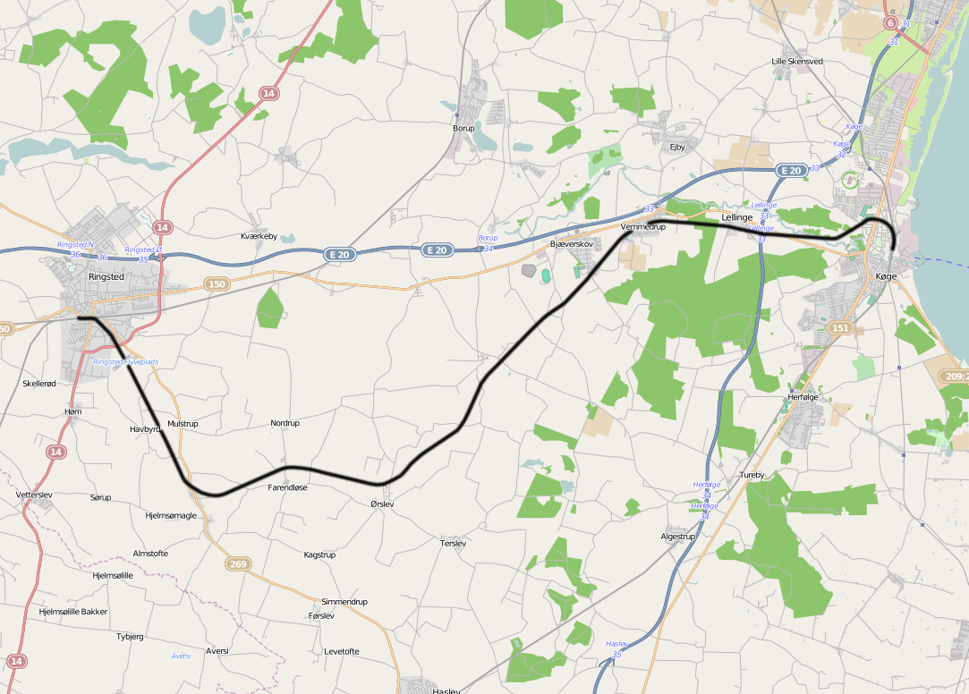 Railway line Køge - Ringsted